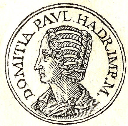 Domitia Paulina Major was a Spanish Roman woman who lived in the 1st century. She was a daughter of a distinguished Spanish Roman senatorial family.